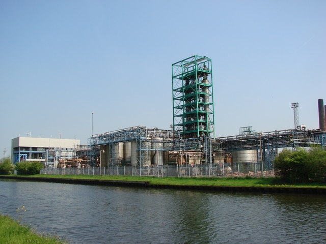 The now defunct Hickson & Welsh Chemical Plant